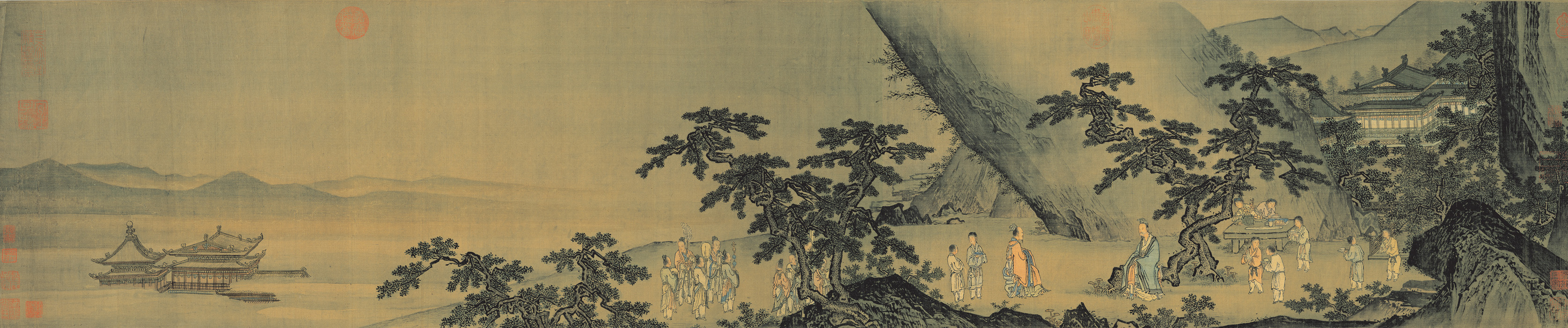 Xuan Yuan Inquires of the Dao, scroll, color on silk, 32 x 152 cm. Located at the National Palace Museum, Taibei. Xuan Yuan is the given name of the Yellow Emperor. This painting is based on the story that the Yellow Emperor went out to the Kongtong Mountains to meet with the famous Daoist sage Guangchengzi